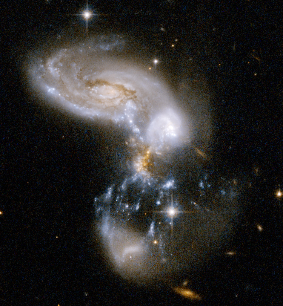 This is a system of merging galaxies with a bizarre shape. Powerful young starburst regions hang as long threadlike structures between the main galaxy cores. The system almost qualifies as an ultraluminous system, but has not yet reached the late stage of coalescence that is the norm for most ultraluminous systems. Zw II 96 is located in the constellation of Delphinus, the Dolphin, about 500 million light-years away from Earth. This image is part of a large collection of 59 images of merging galaxies taken by the Hubble Space Telescope and released on the occasion of its 18th anniversary on 24th April 2008.